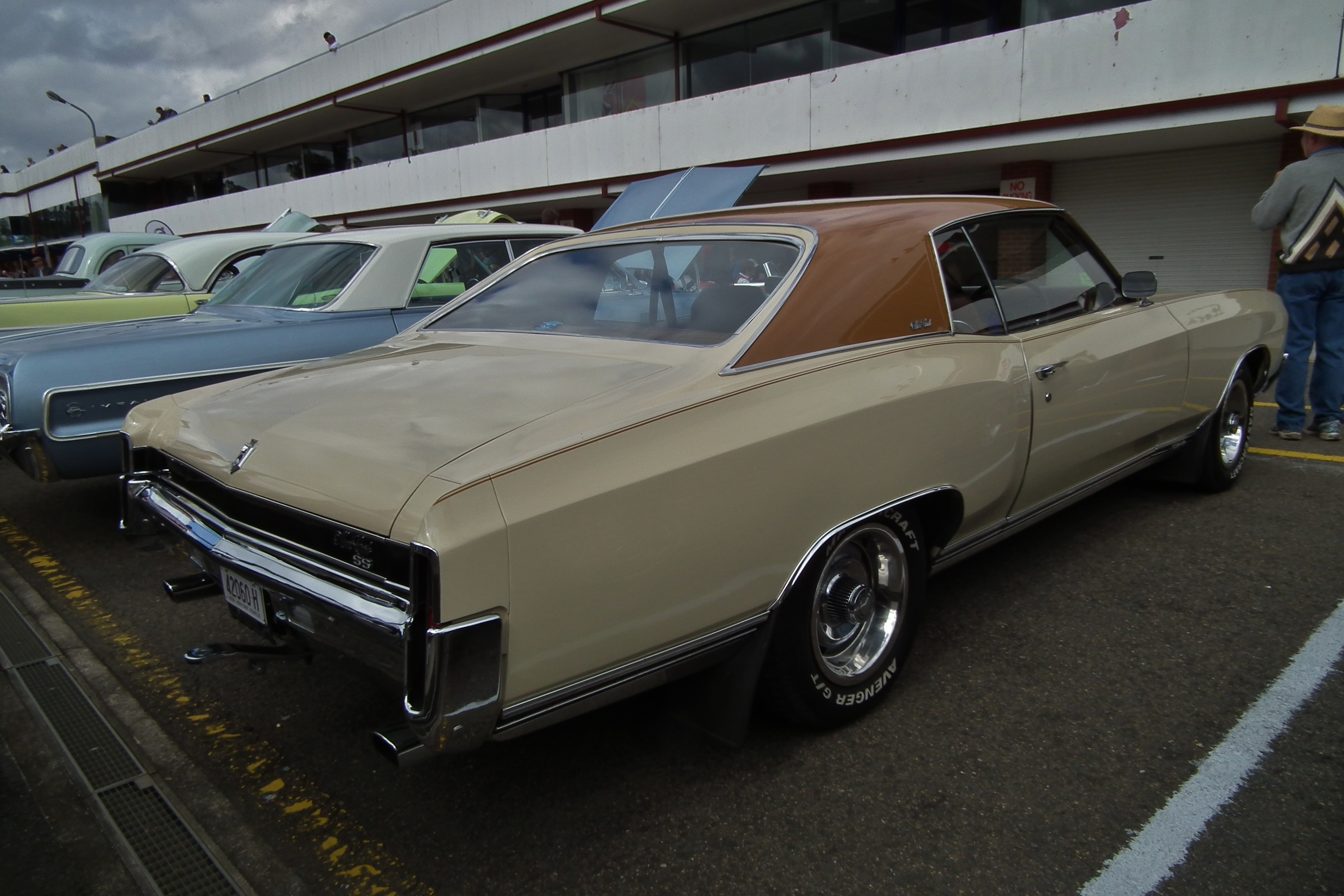 1971 Chevrolet Monte Carlo SS coupe. Taken at Shannon's Eastern Creek Classic 2011, held at Eastern Creek Raceway Sydney.